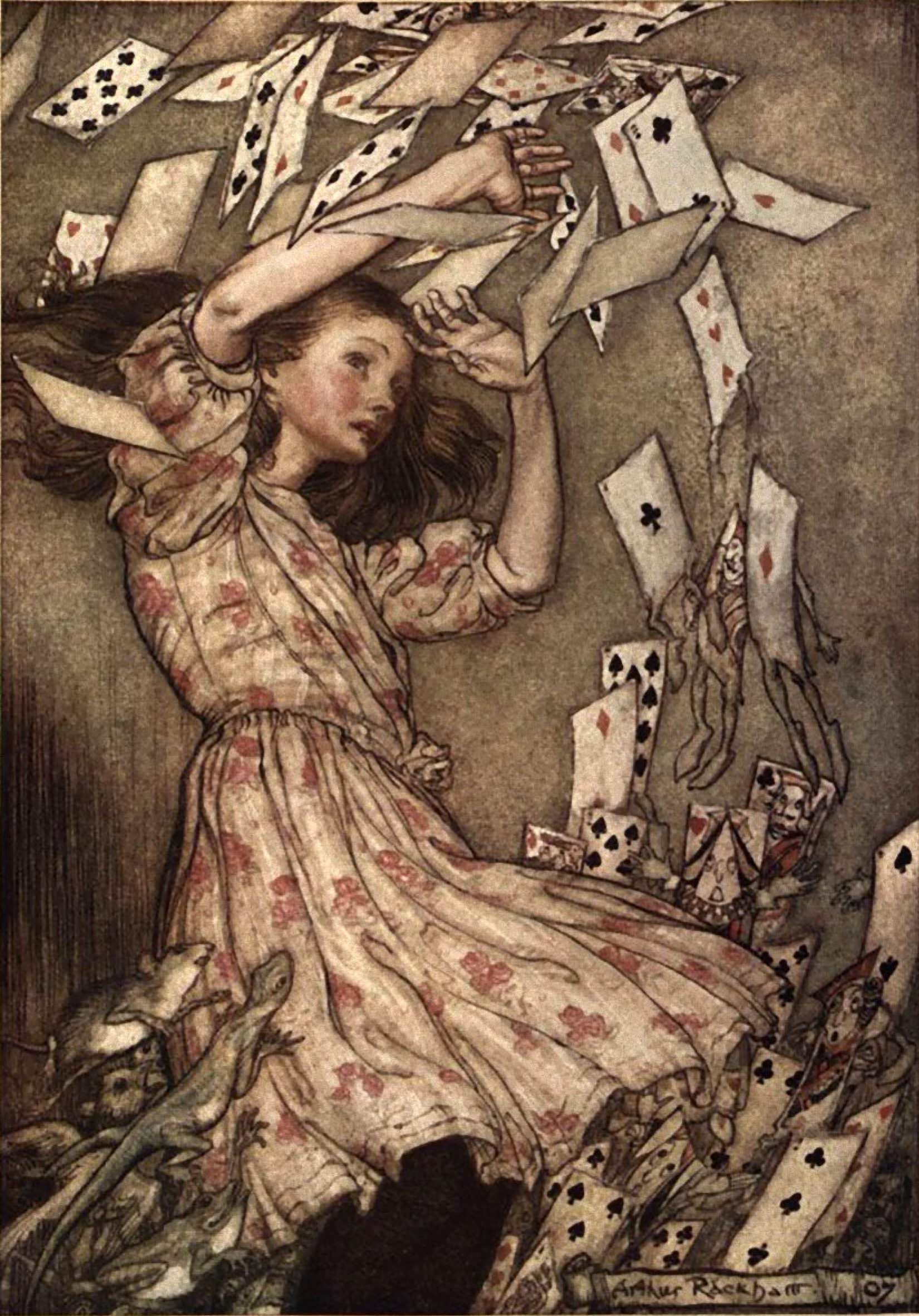 "At this the whole pack rose up into the air, and came flying down upon her". From a 1907 edition of Alice's Adventures in Wonderland (link to page / name)